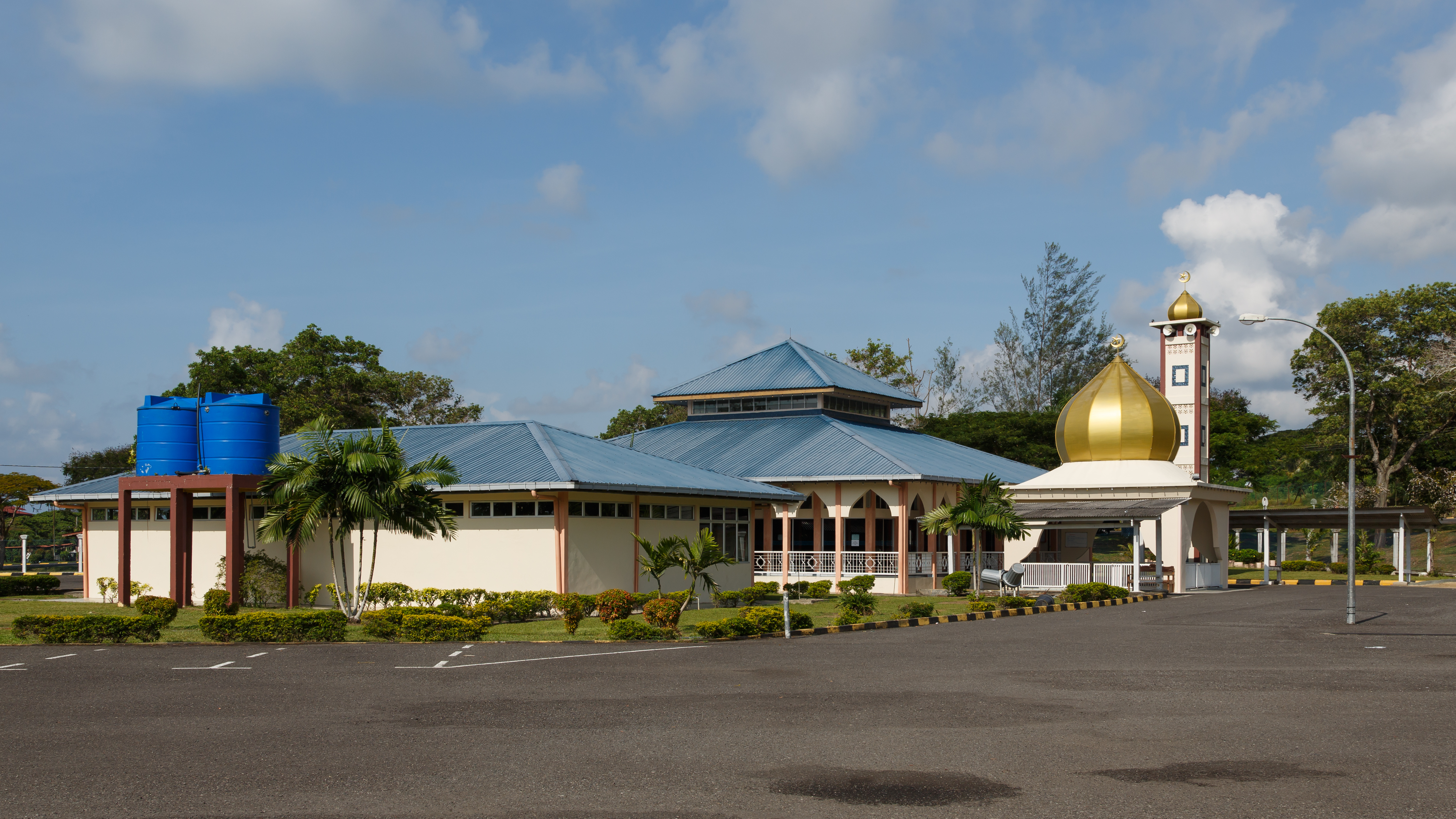 Bandar Sahabat, Sabah: Masjid Bandar Sahabat, the mosque of Sahabat Town